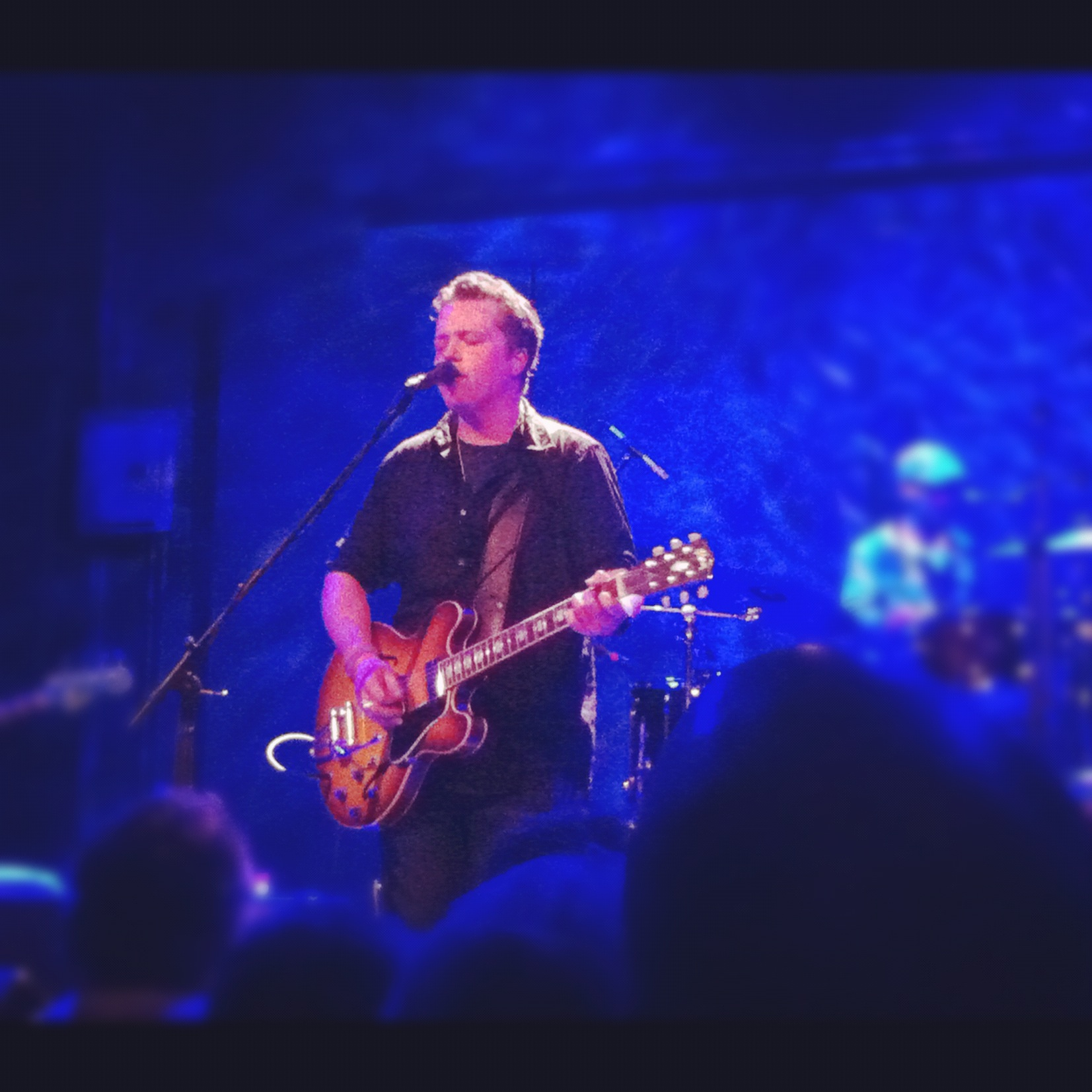 Jason Isbell playing with the 400 Unit at Bowery Ballroom in January 2013